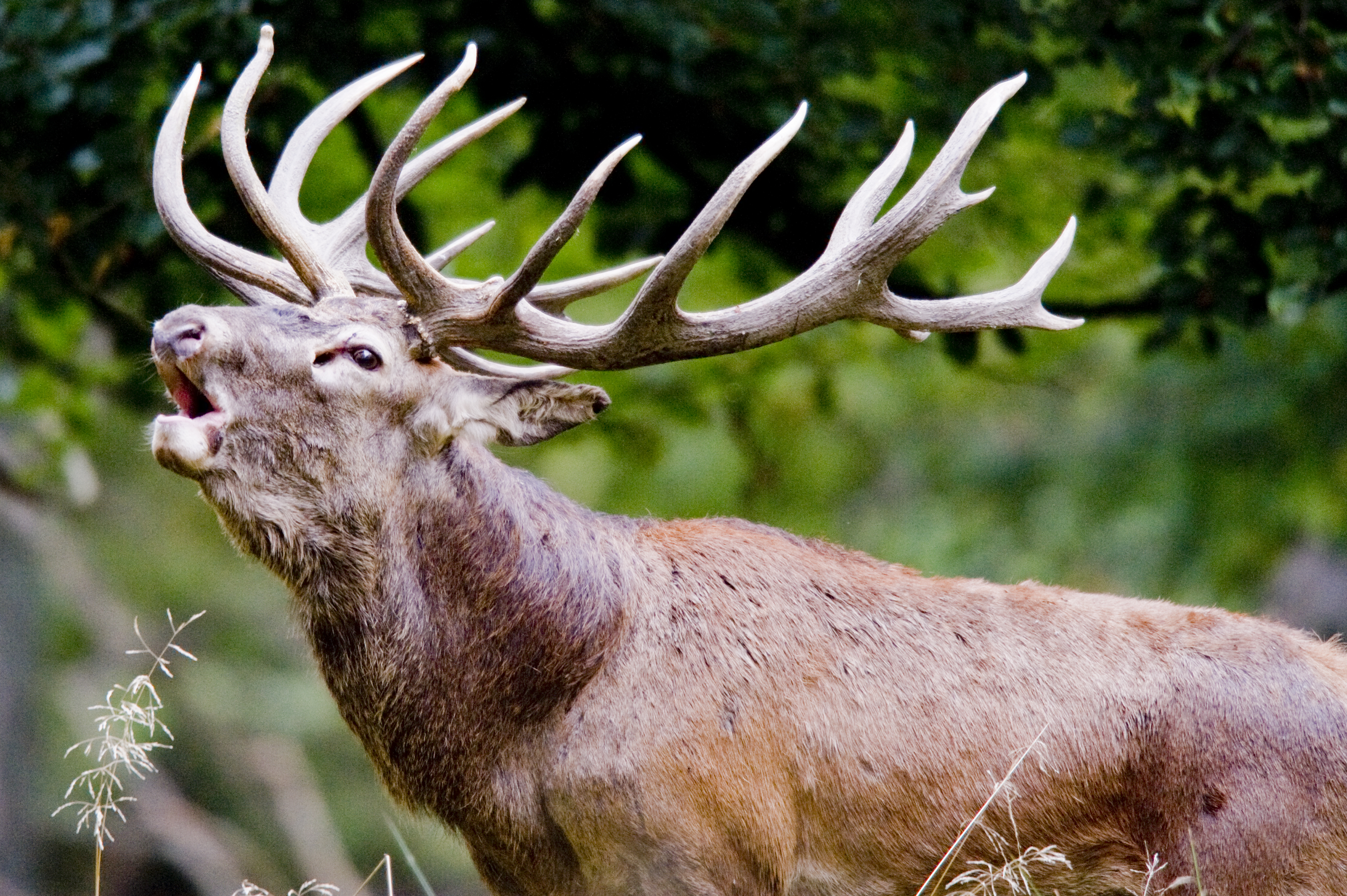 Red deer roaring in mating season 2009 in Denmark.